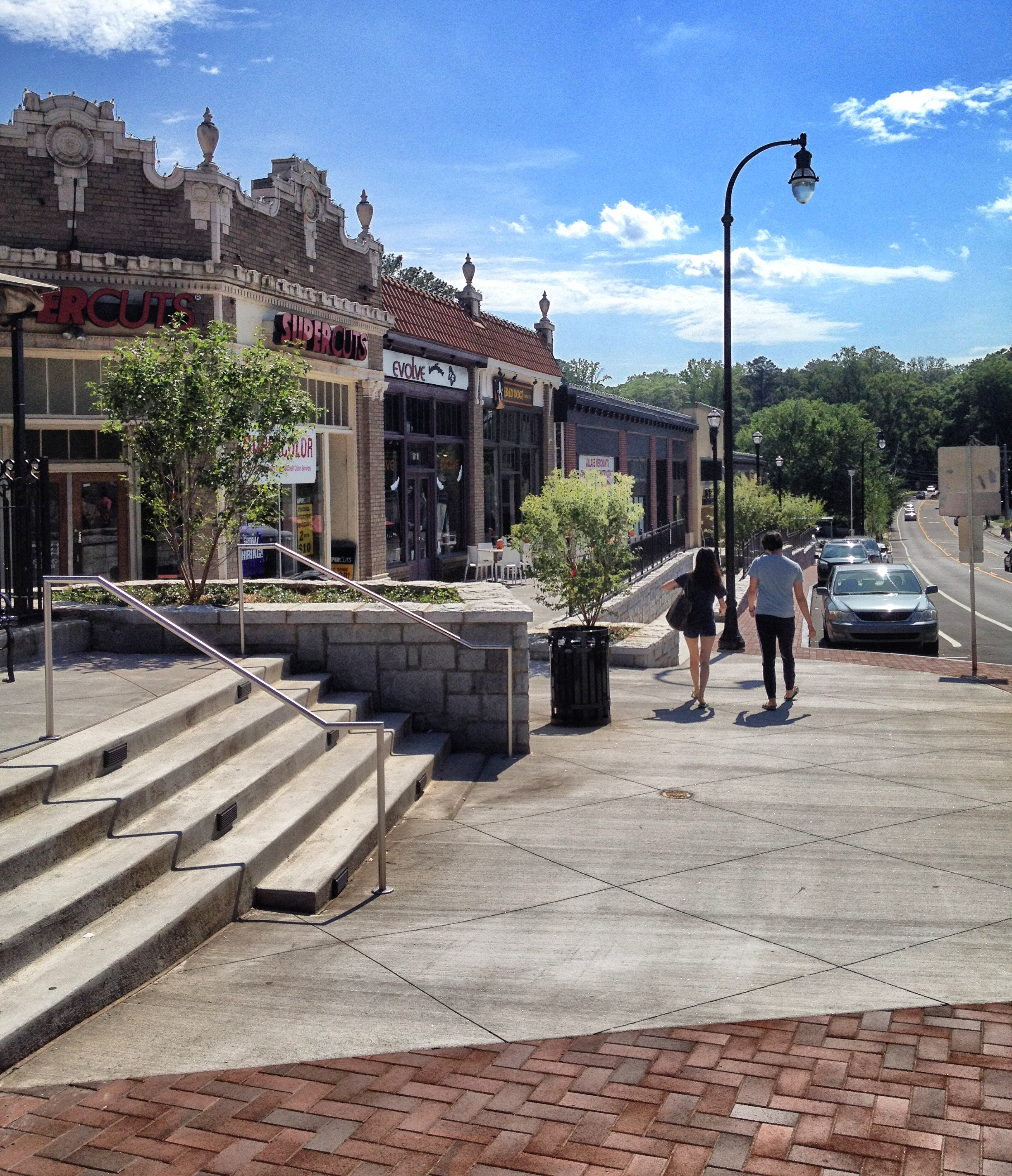 Emory Village May 2012